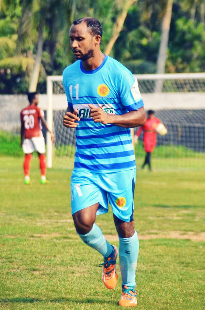 Abdul Baten Komol playing for Chittagong Abahani